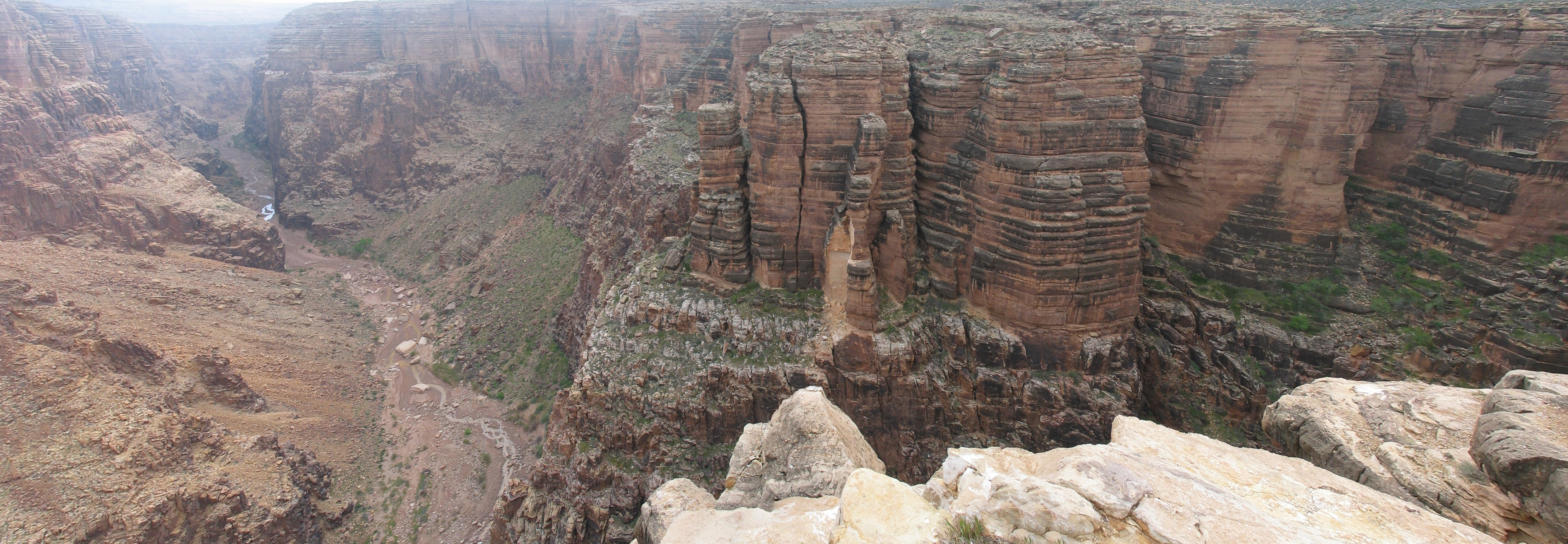 Panorama of Little Colorado River gorge